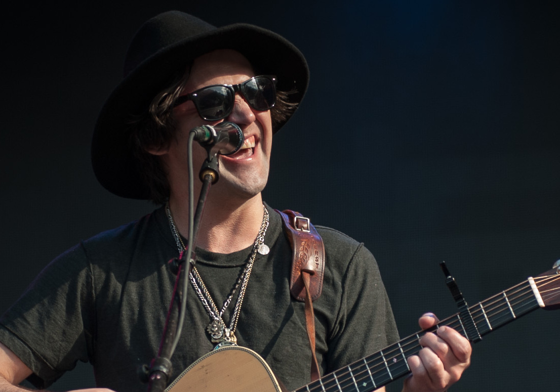 Conor Oberst at Way Out West in Gothenburg, Sweden, august 2014